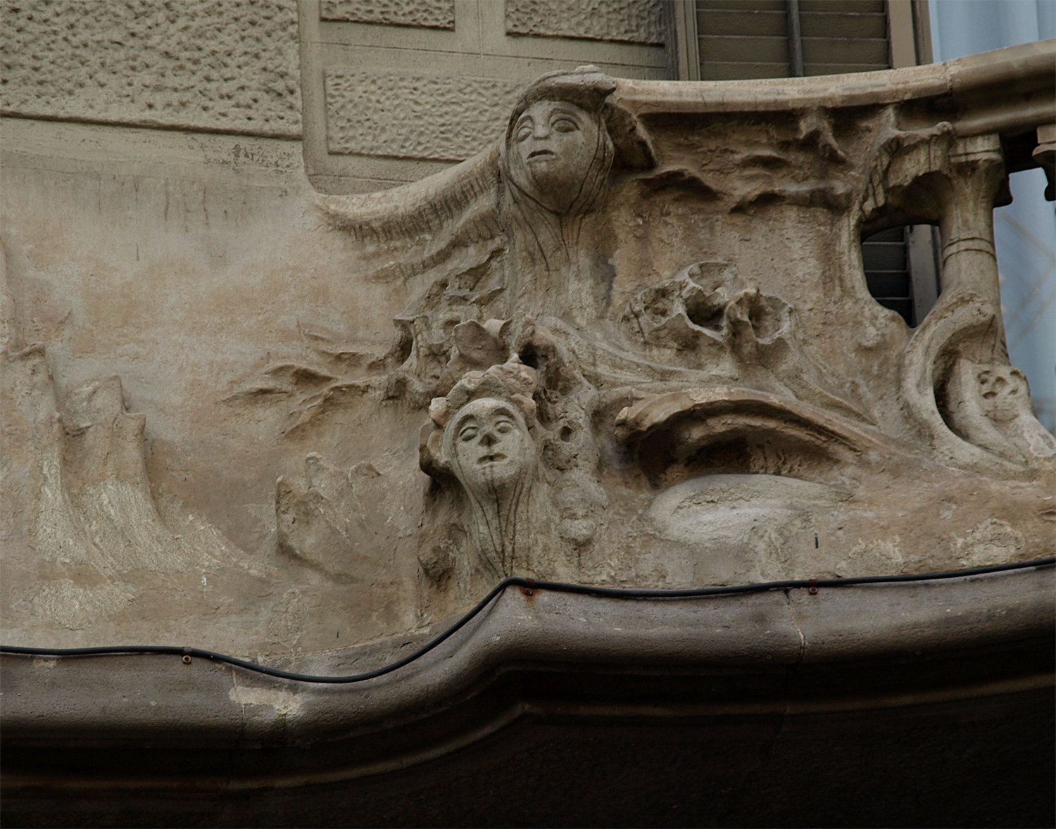 Casa Fargas - Catalan Modernisme (1907 - 1909, Enric Sagnier)